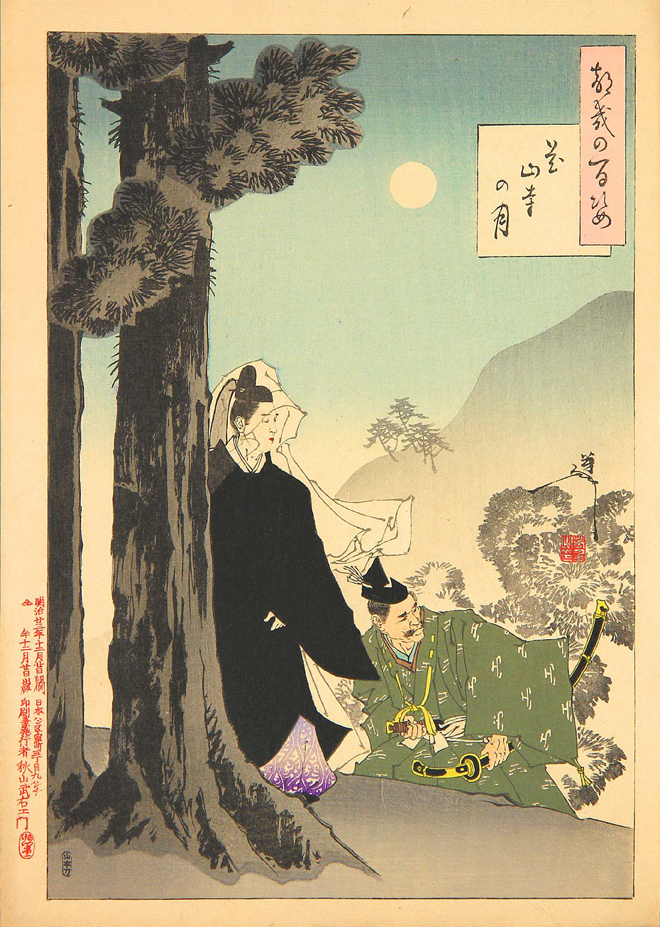 "Tsuki Hyakushi" (One Hundred Aspects of the Moon) - Kazan Temple Moon, by Yoshitoshi Tsukioka (Taiso) (1839-1892), depicting Kazan who became the emperor of Japan (tennō) at the age of 17 and was tricked to abdicate his throne and retired to a temple. Woodblock print (Format:Oban tate-e, 25 cm x 37 cm), published by Akiyama Buemon.